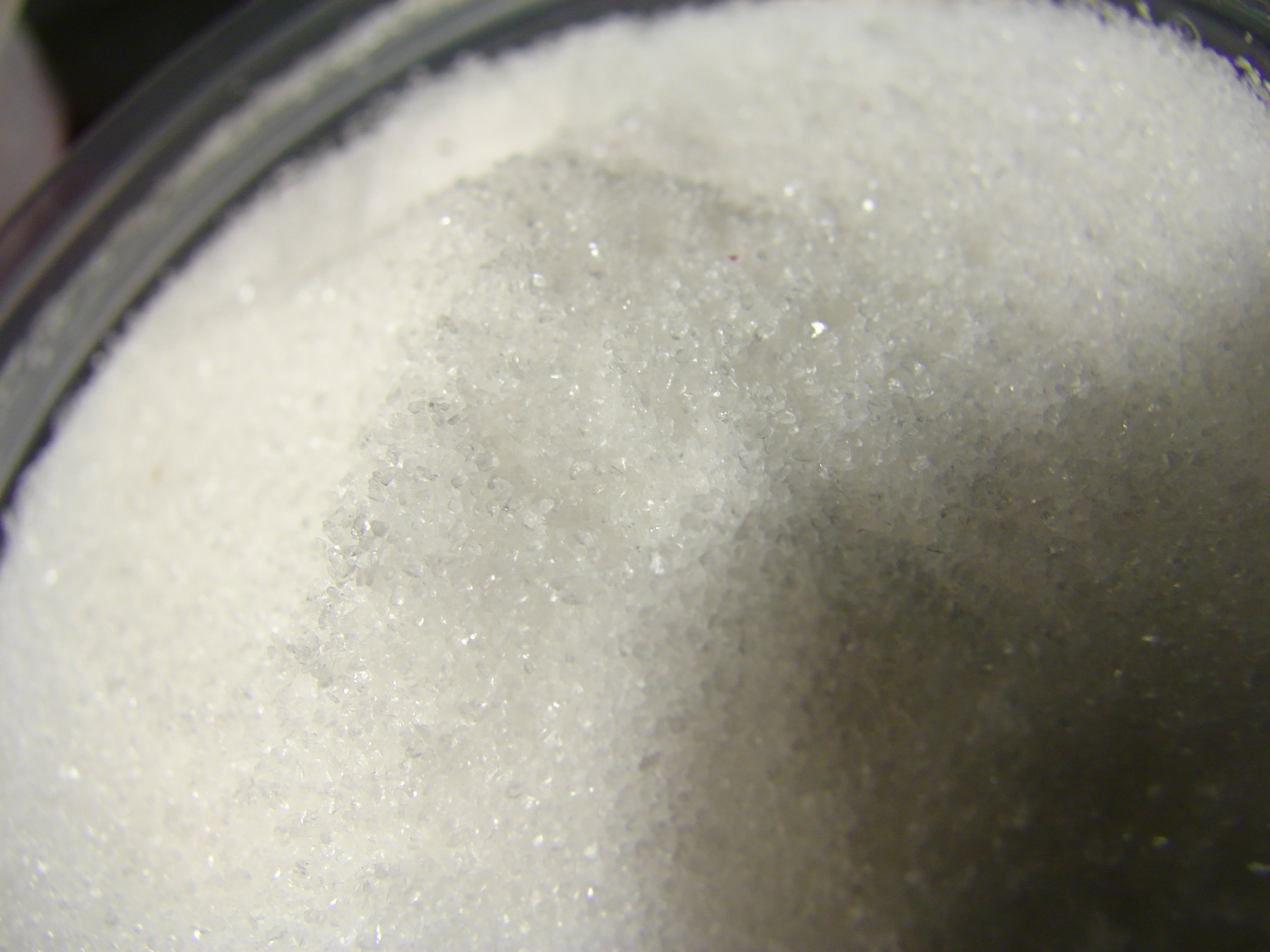 Photo taken by me in September, 2006.